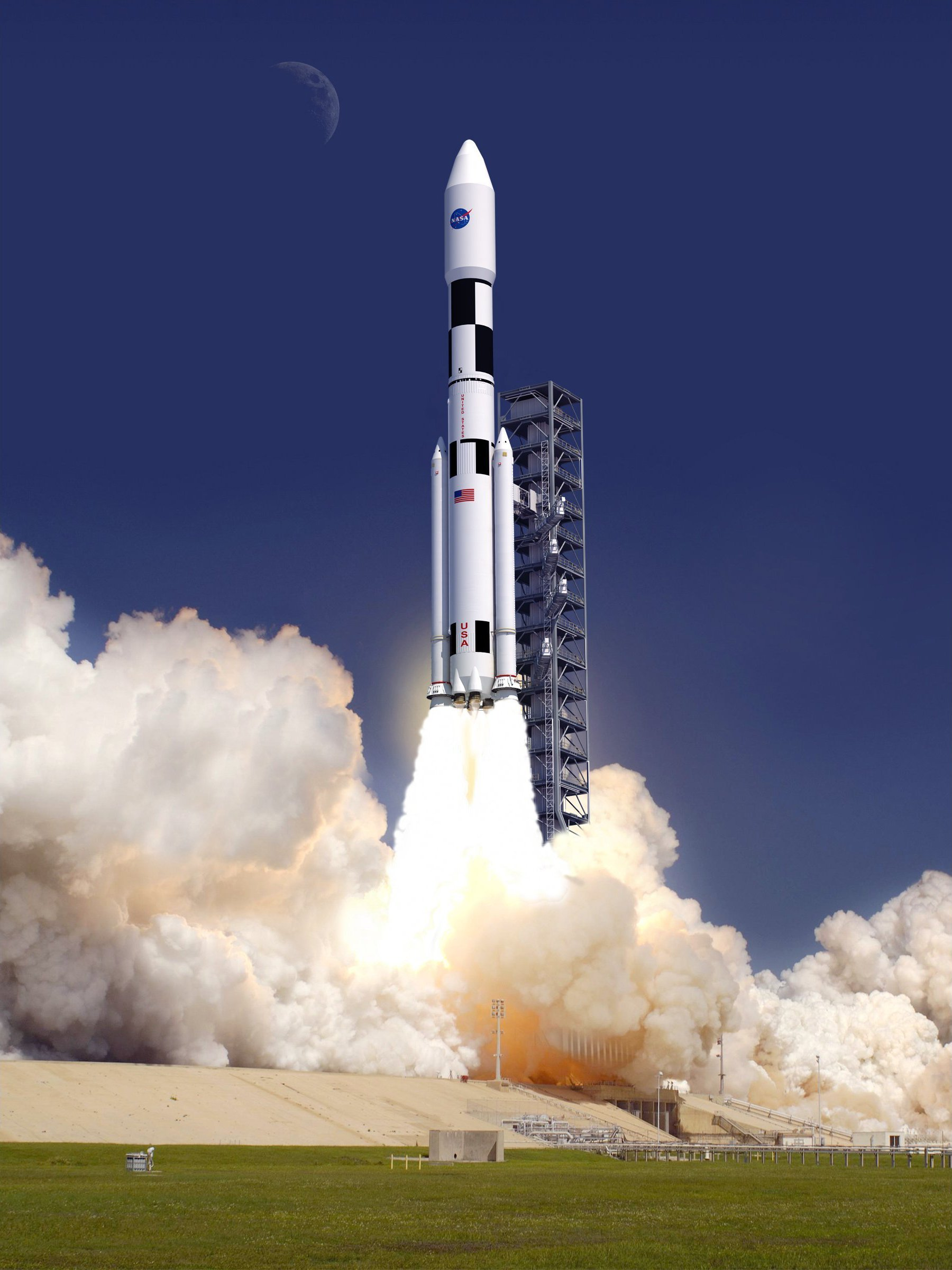 Artist concept shows NASA's Space Launch System Block II cargo rising from a launchpad.